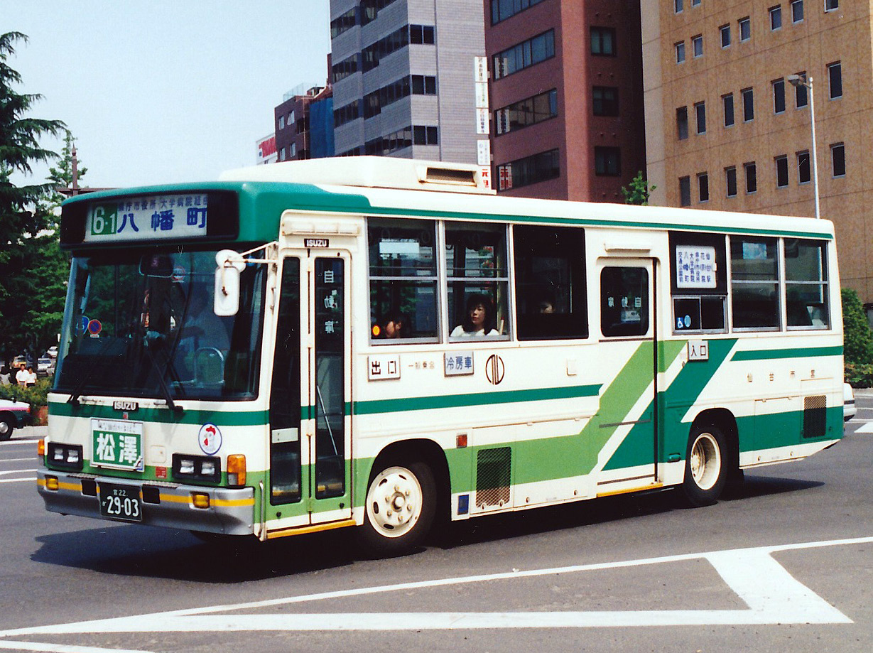 Sendai City bus Isuzu Journey K (P-LR212J) for central roop bus